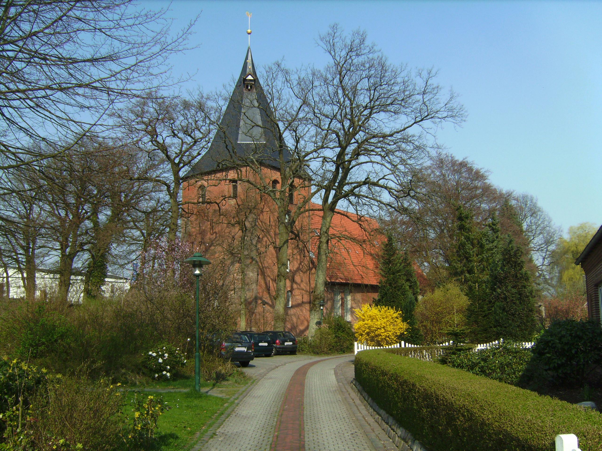 St. Marien (St. Mary) in Neuenkirchen (Land Hadeln) / Lower Saxony, Germany, from Southwest